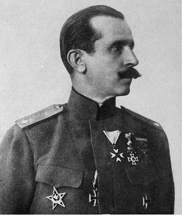 Nikola Zhekov photo. Nikola Todorov Zhekov (1864 – 1949) was a Minister of War of Bulgaria in 1915 and served as Commander-in-Chief from 1916-1918 during World War I.